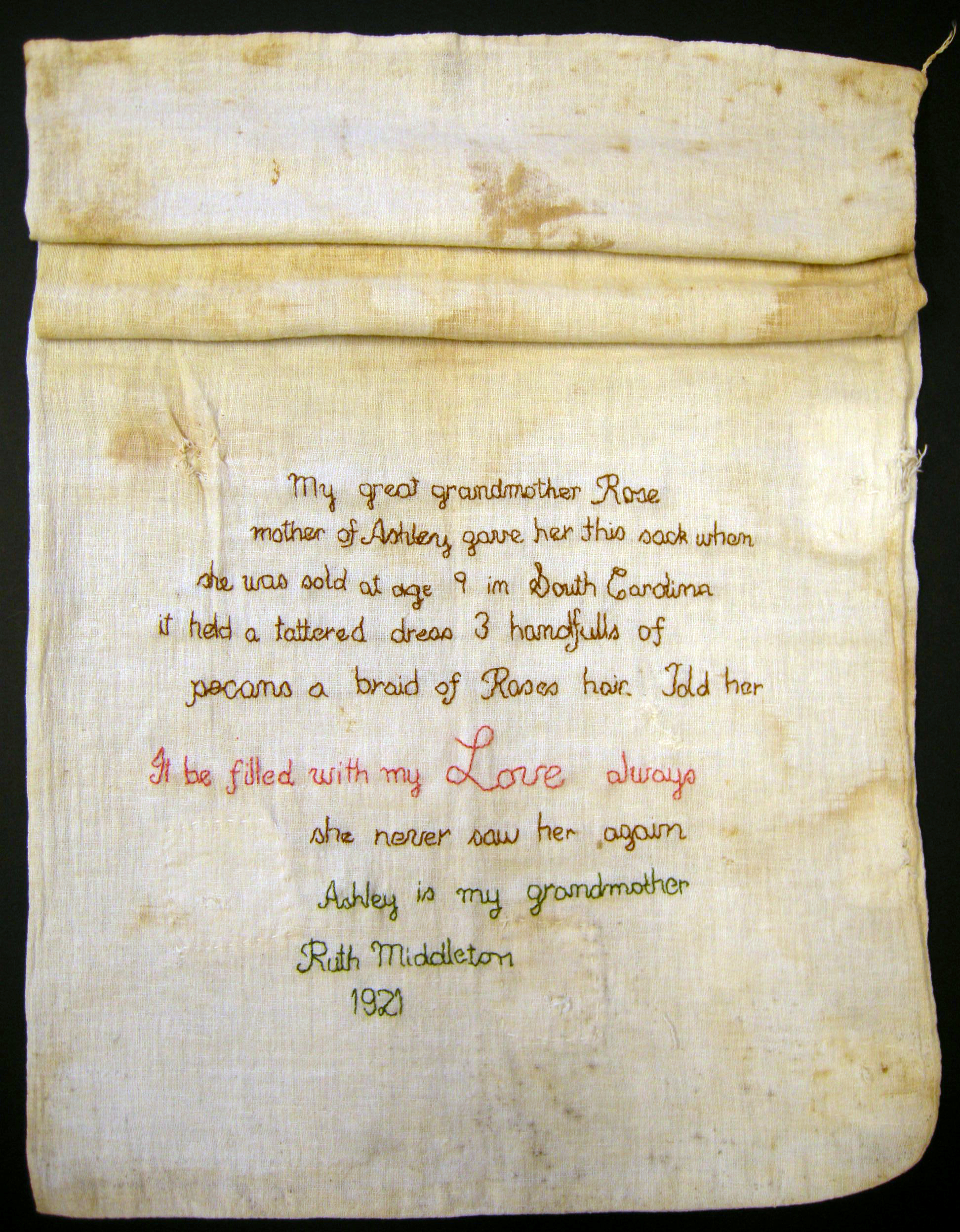 This is an image of an embroidered cotton feed sack from the mid-19th century. The sack was embroidered by Ruth Middleton with the story of how the sack was a gift from an enslaved mother, Rose, to her daughter, Ashley, when the nine-year old was sold.